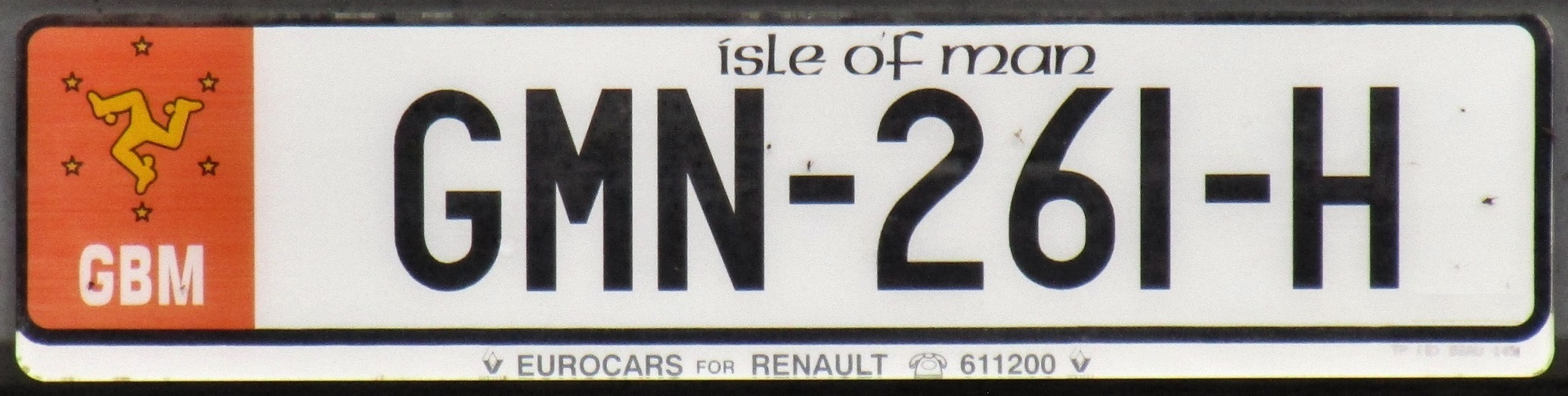 Isle of Man current series license plate